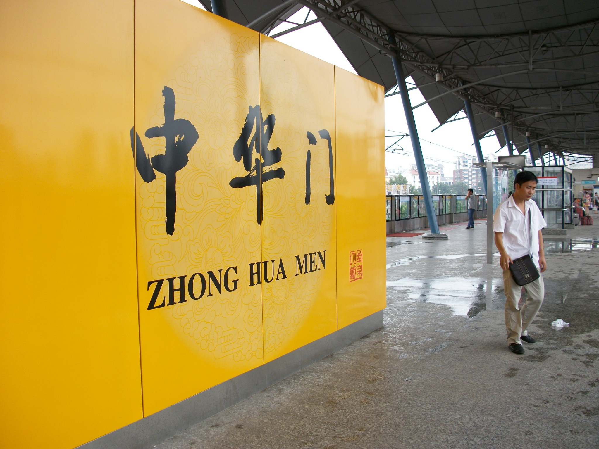 Zhonghuamen Station of Nanjing Metro